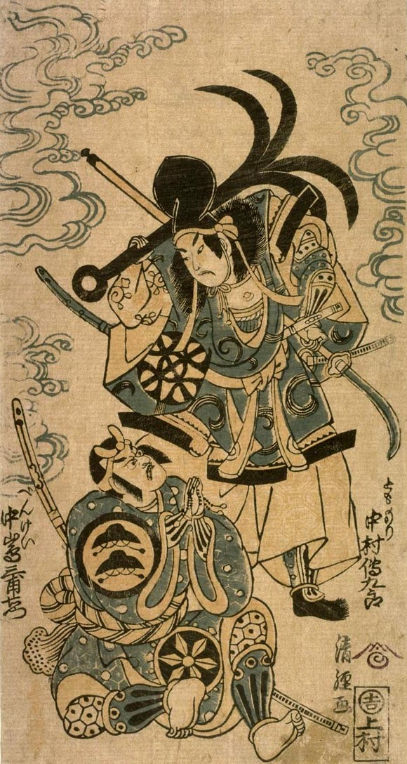 Depiction if actors Nakajima Mihoemon I (sitting) and Nakamura Denkurô II (AKA Nakamura Kanzaemon VIII, standing) playing the roles of Benkei and Taira no Tomomori in the drama "Yoshitsune Sembon Zakura", staged in May 1748 at the Nakamuraza theater (ukiyo-e by Torii Kiyomasu II)